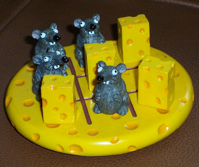 Tic-tac-toe, decoration game, designed by Frans de Lange, Noordwijk, Inspiration Holland b.v. (Katwijk) NL, mid 1990's